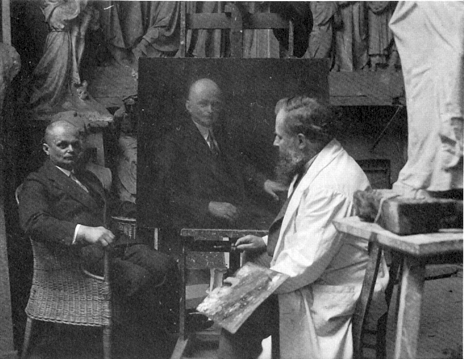 Flemish painter Achilles Moortgat (1881–1957) paints a portrait of Dr. Leo Kralewski (1881-1961)